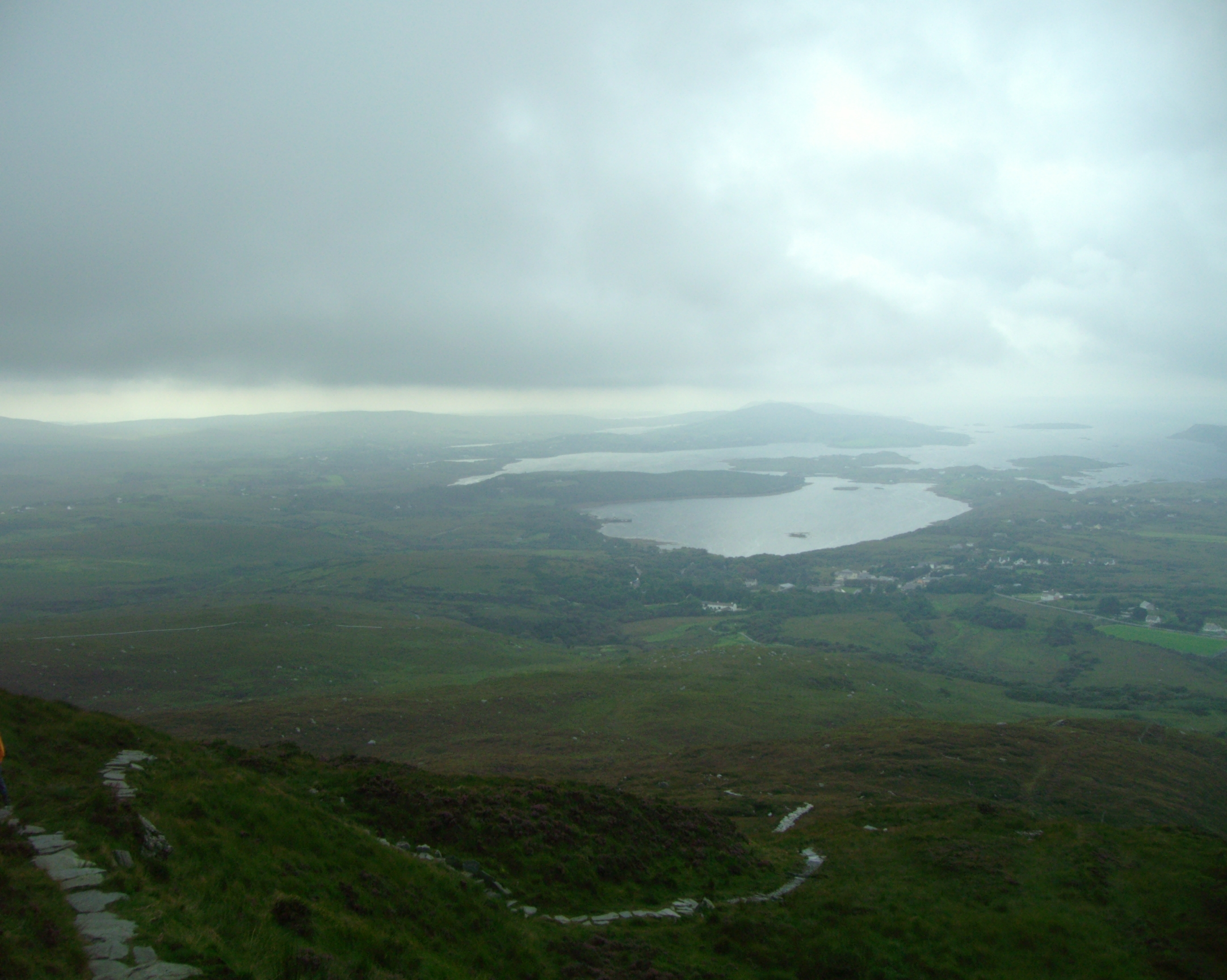 Barnaderg Bay at Letterfrack, seen from Diamond Hill, Connemara National Park, County Galway, Republic of Ireland.